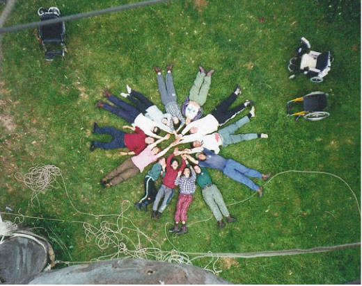 This photo was taken from the top of a flying fox (zip line). Participants in this Outward Bound group, with a variety of physical disabilities, had just tackled a ropes challenge course as part of a 9 day program. Photo taken by Louise Dawson, c.1996, who gave permission for widespread use. Scanned by Jtneill. Source URL